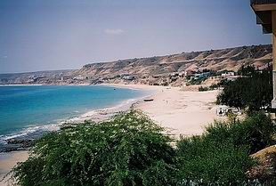 Picture of Baía Azul in Benguela - Angola